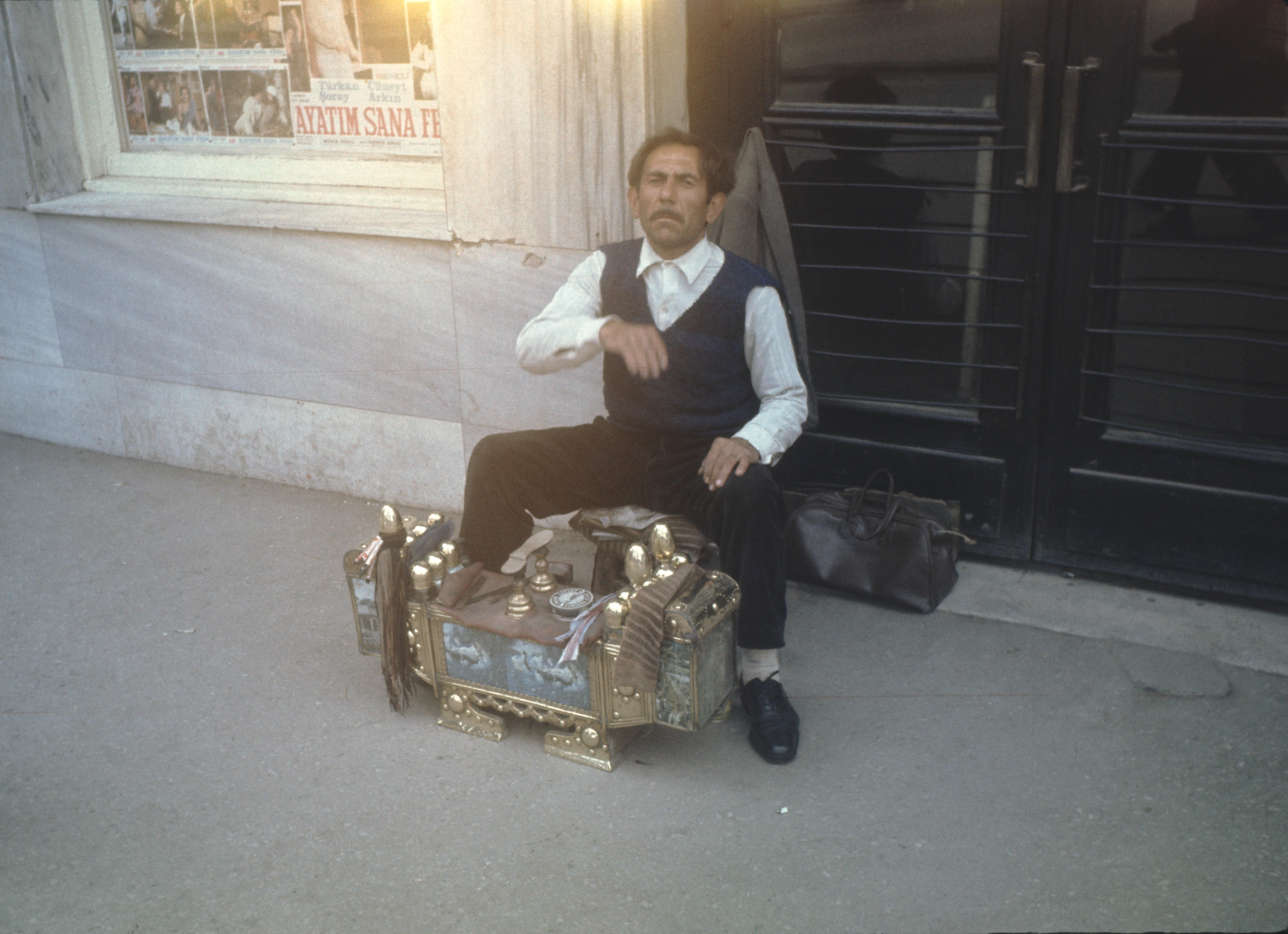 Photography by Victor Albert Grigas (1919-2017) Ankara Barikan otel 3-70 March 1970 00362 (40734068193).jpg